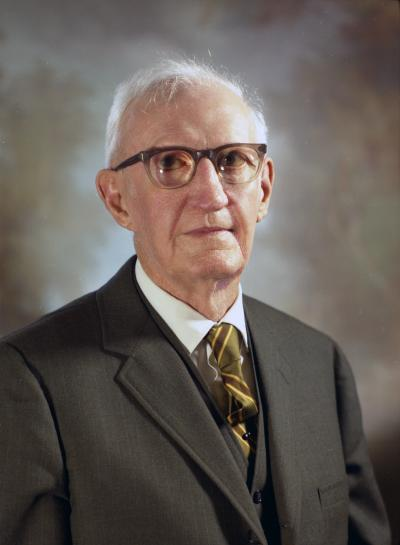 Senator John T. McCutcheon, 1969